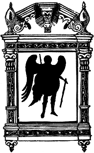 Nikolay Dmitrevsky. Linocut from the album "Old Vologda" (1922). Silhouette of St Michael from the icon by Grigory Ageev, Fydor Grigoriev and Timofey Petrov (1687) of John the Apostle Church in Vologda, within a frame of Vologda Presentation of Jesus Church window.